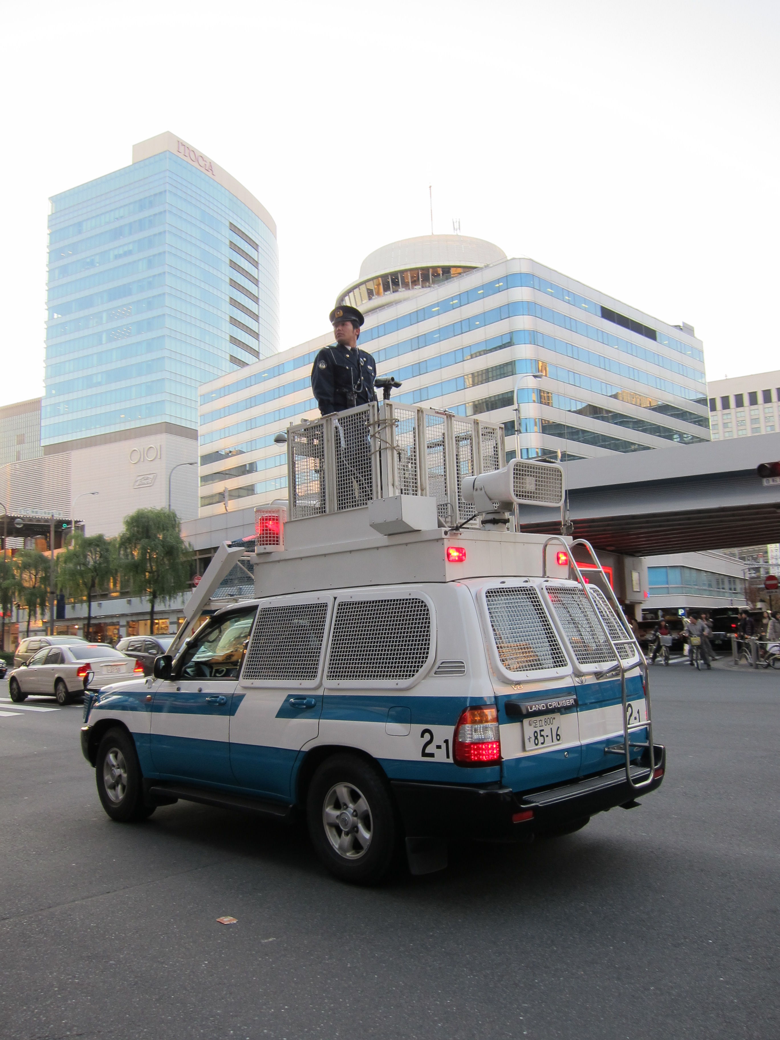 Protest march against nuclear power plants